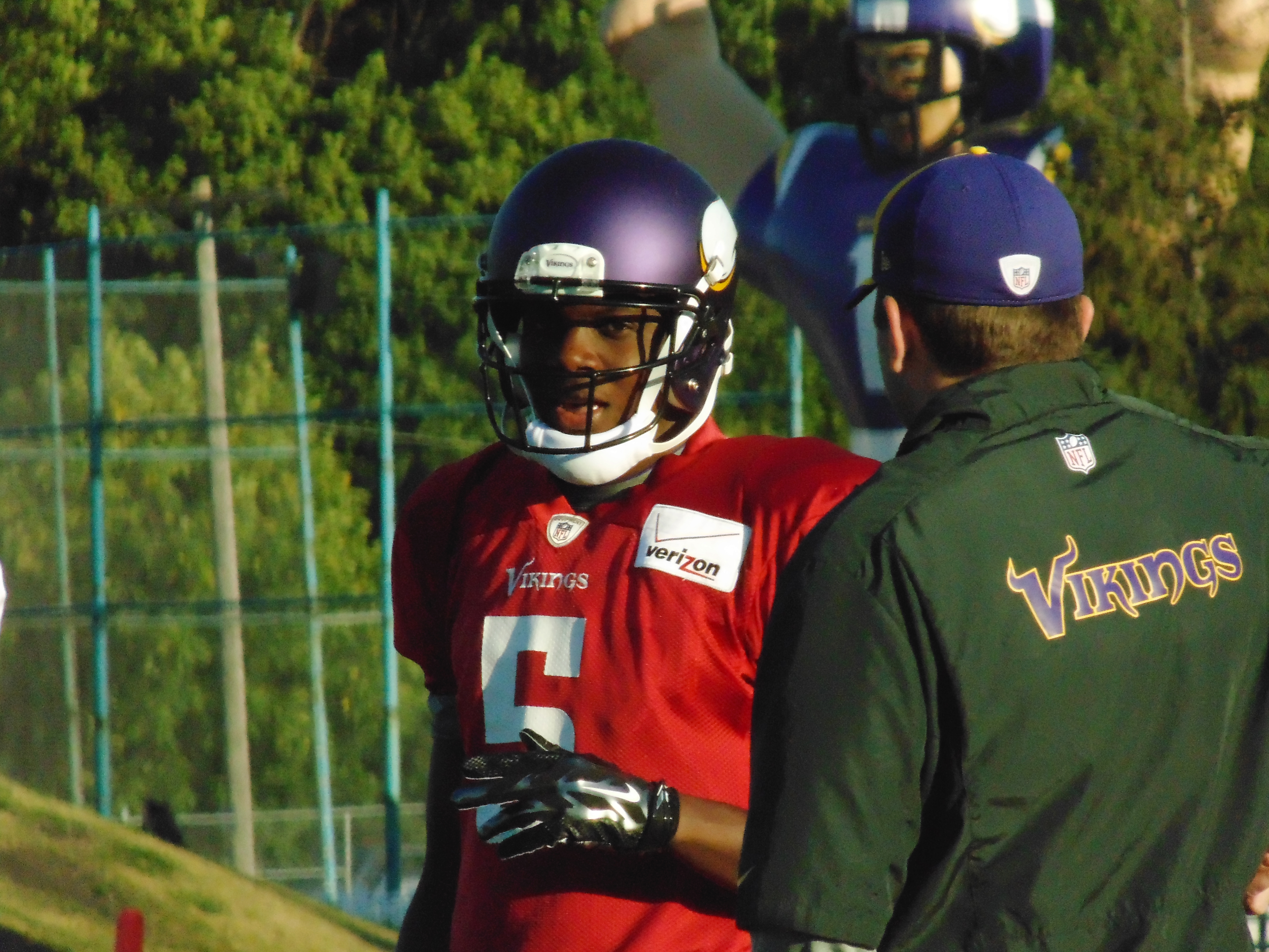 Minnesota Vikings QB Teddy Bridgewater talking with QB coach Scott Turner during 2014 training camp